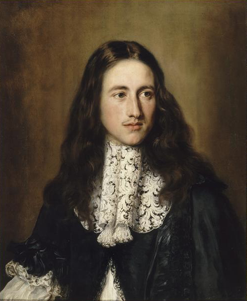 Portrait of Augusto Chigi son of Agostino Chigi and Maria Virginia Borghese